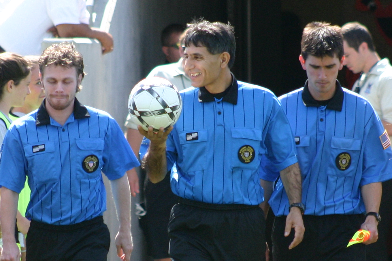 A soccer referee crew.